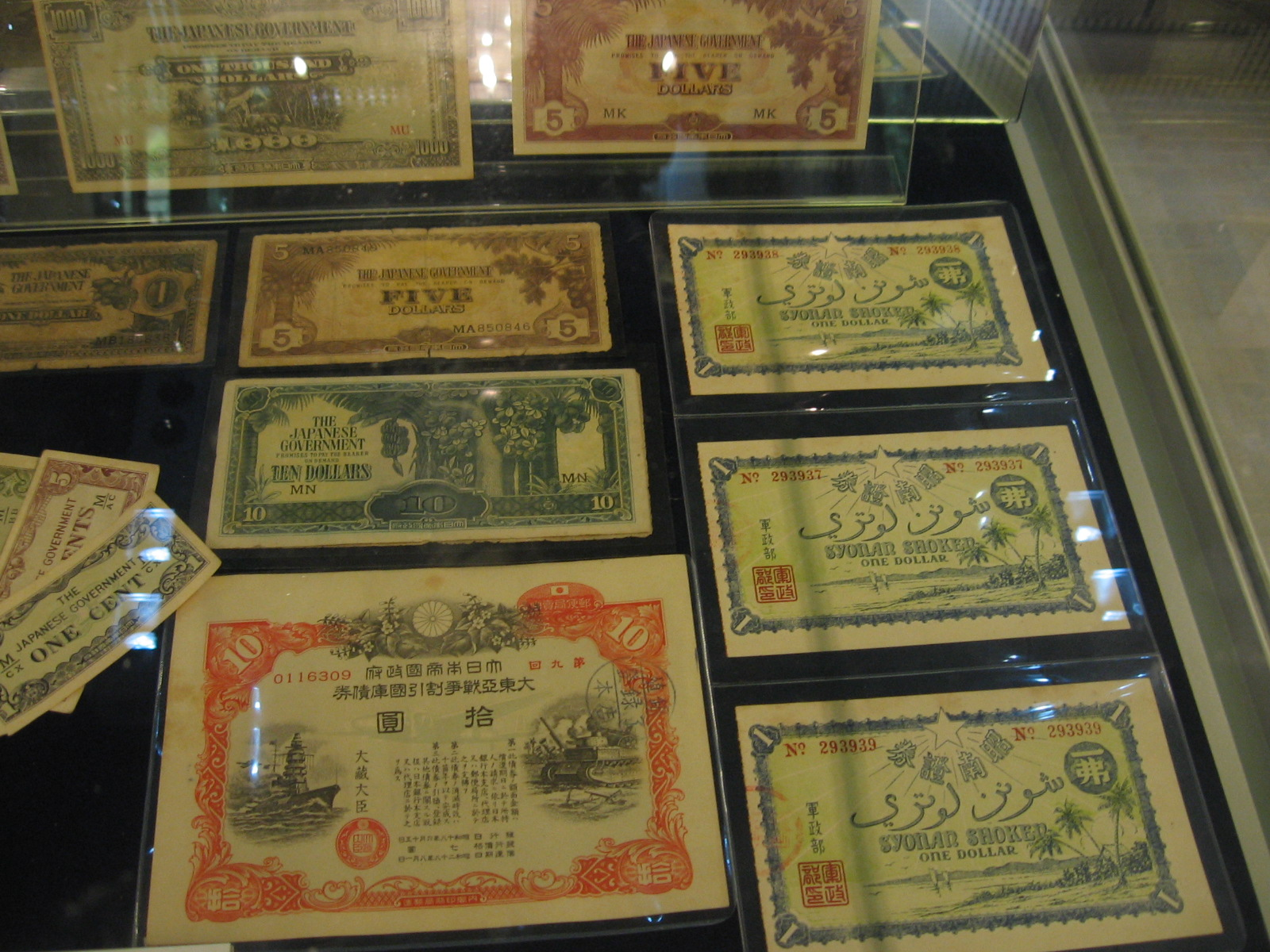 Old Ford Motor Factory. Taken by User:Sengkang of ENglish.Wikipedia in Mar 2007.